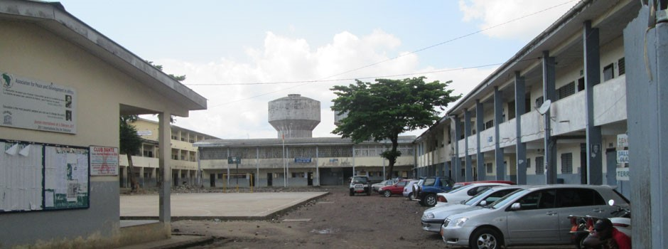 Front view of GBHS Deido